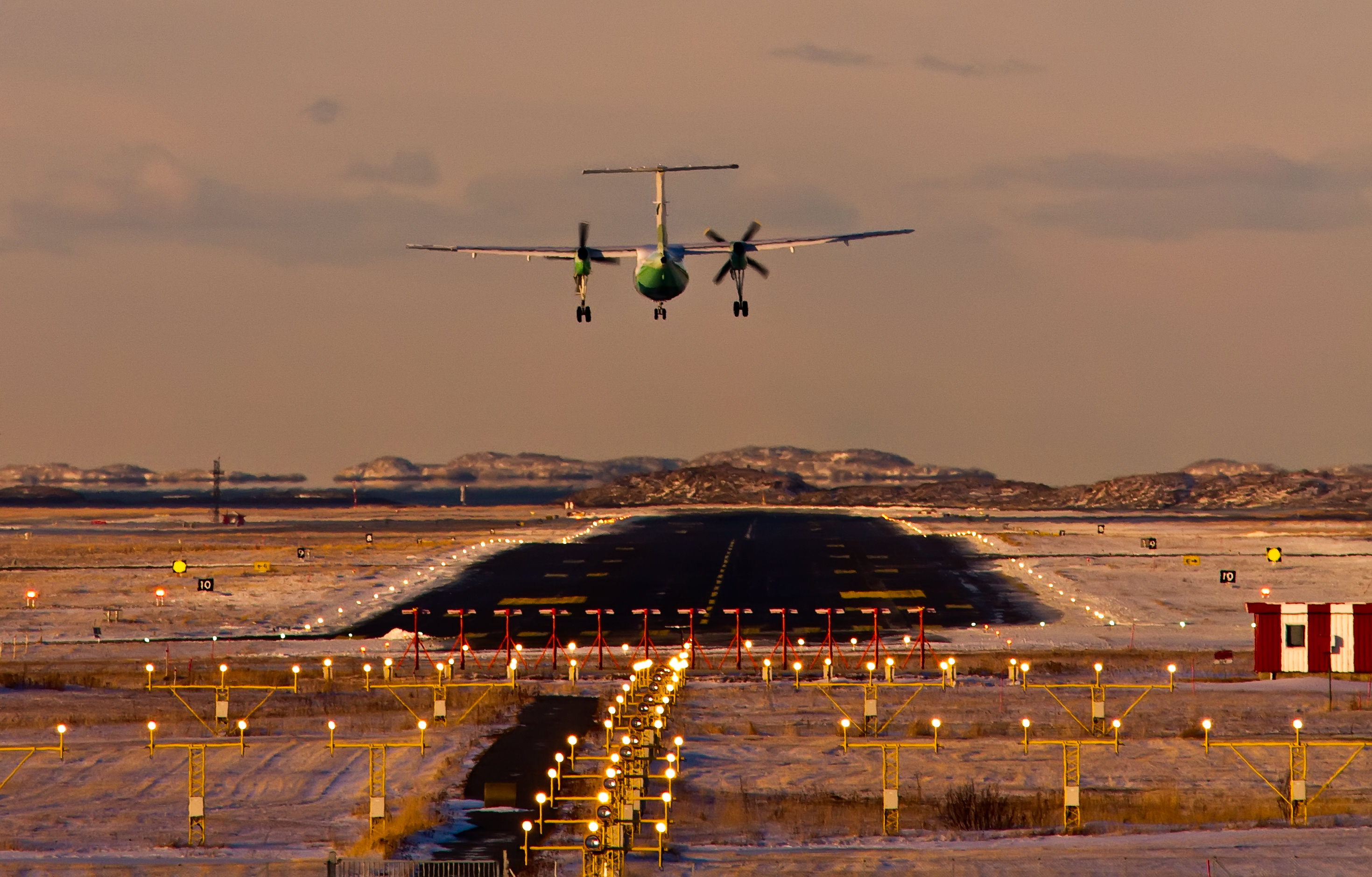 Widerøe Dash 8-100 landing at Bodø Airport